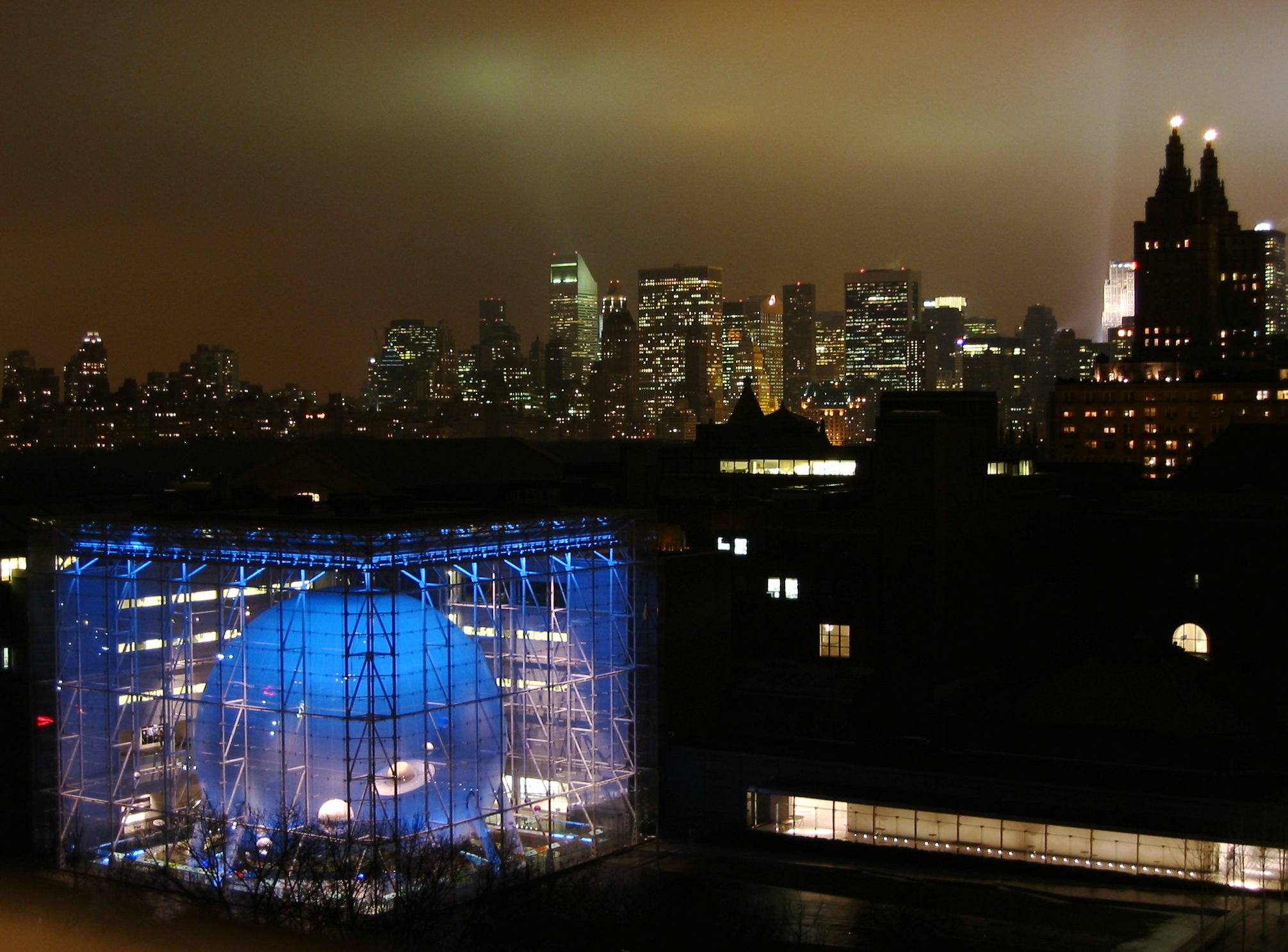 Hayden Planetarium at the Museum of Natural History in New York City